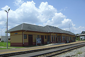 McComb station visited in August 2010